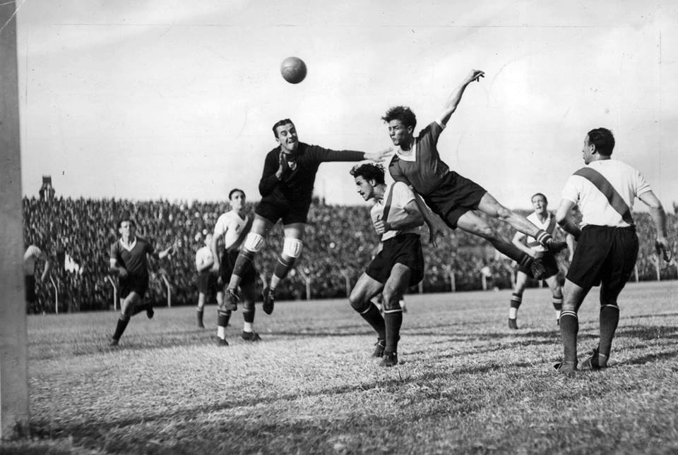 Paraguayan striker Arsenio Erico heading the ball in a match against River Plate.